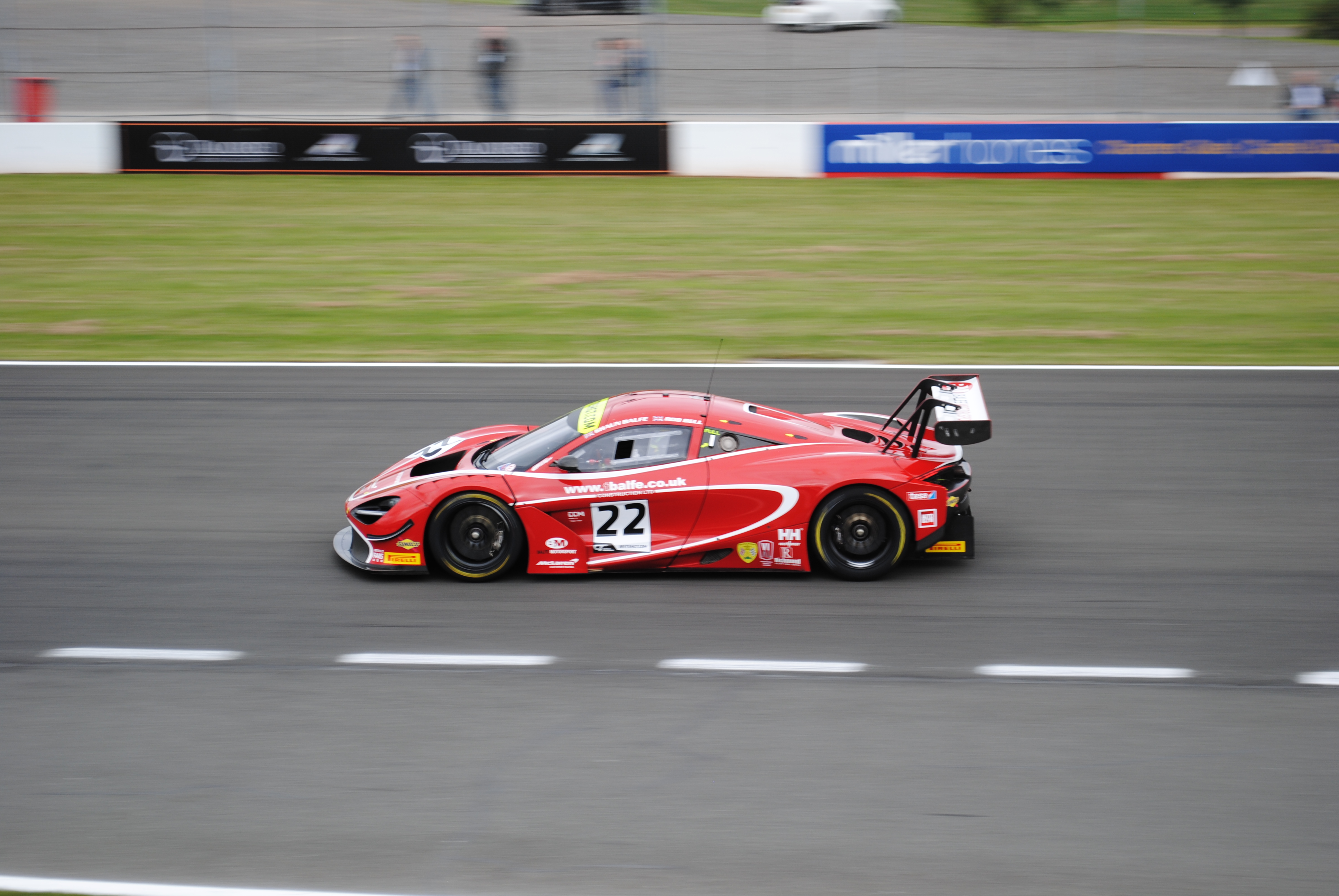 The polesitters and the victores for the finale of the 2019 British GT championship at Donington Park, Shaun Balfe and Rob Bell.